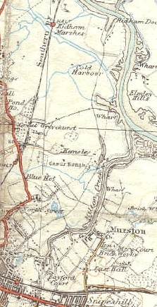 c1946 Ordnance Survey map showing the Bowaters Paper Railway